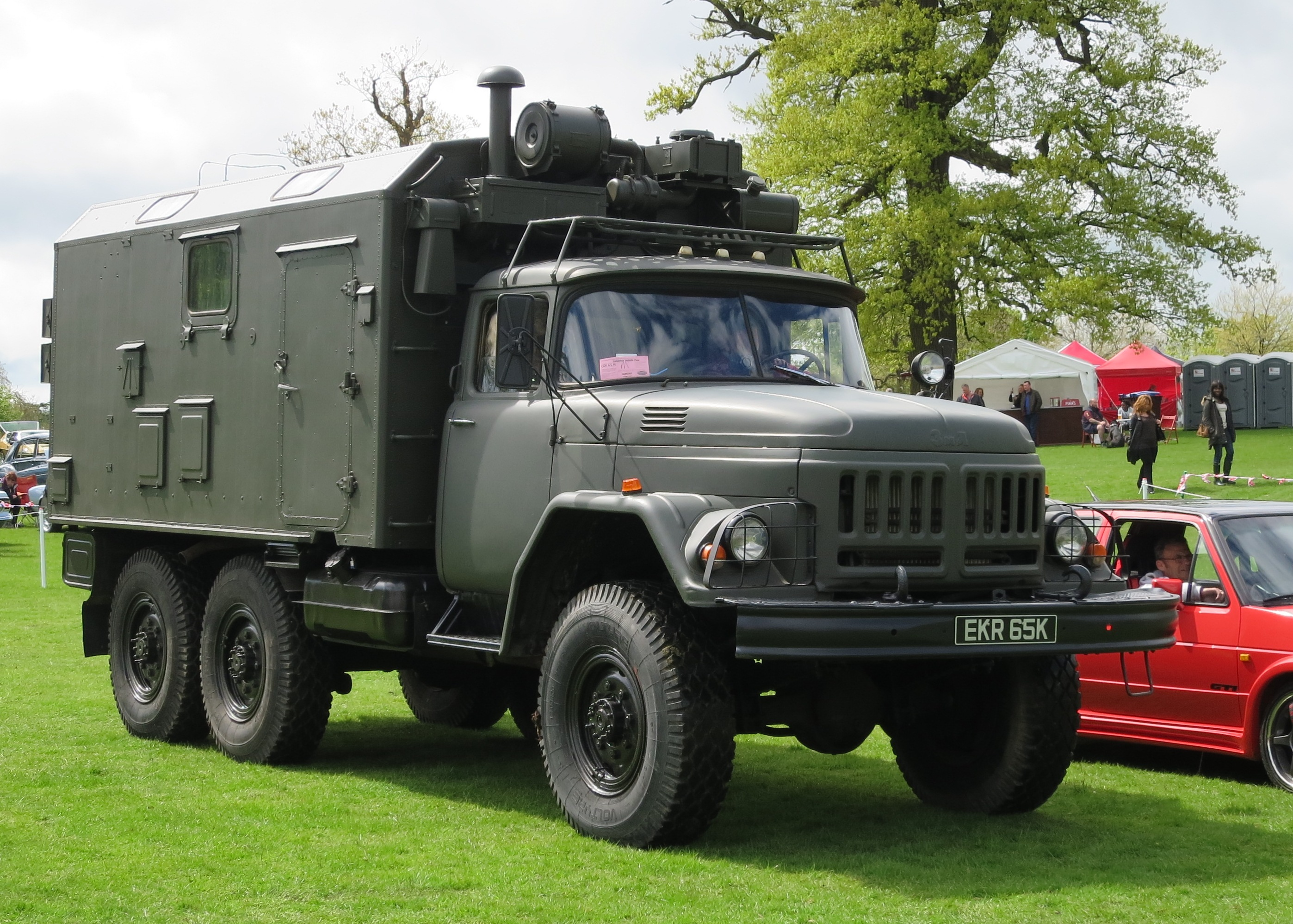 Zil 131 6x6 radio truck (1972)